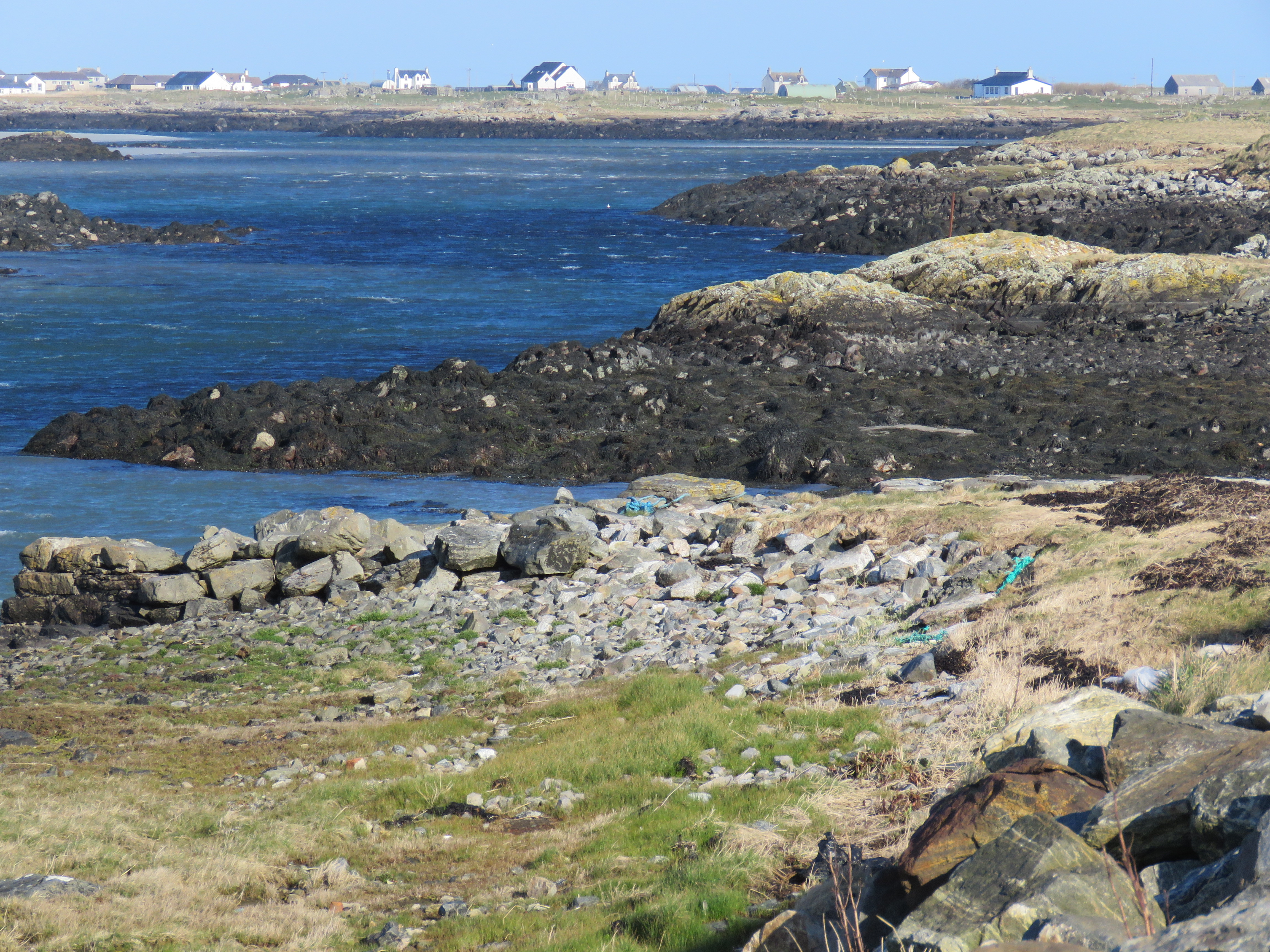 Landscape, Benbecula, Scotland